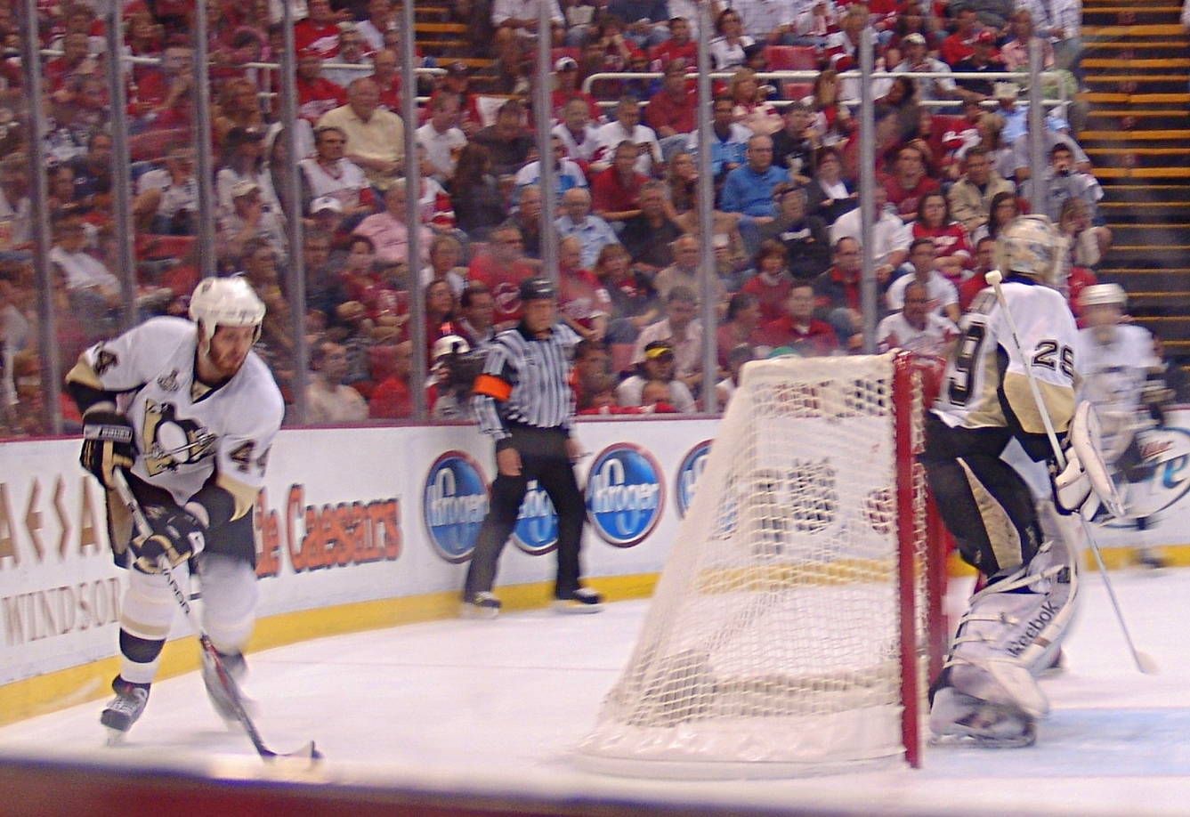 Pittsburgh Penguins defenseman Brooks Orpik skates the puck out from behind his net during game 5 of the 2009 Stanley Cup Finals, June 6, 2009 at Joe Louis Arena in Detroit, MI.